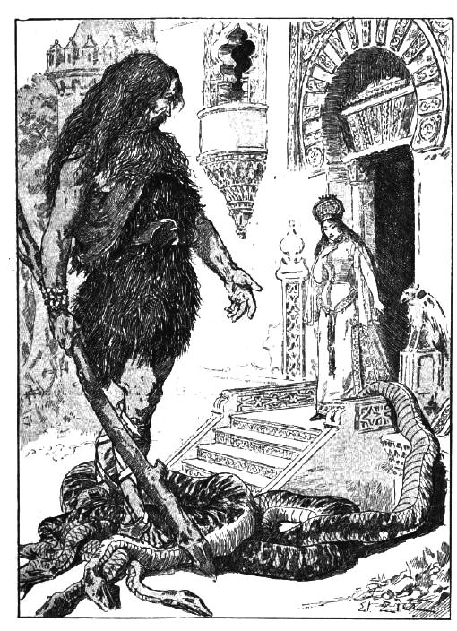 A picture representing the Occitan hero Joan de l'Ors.